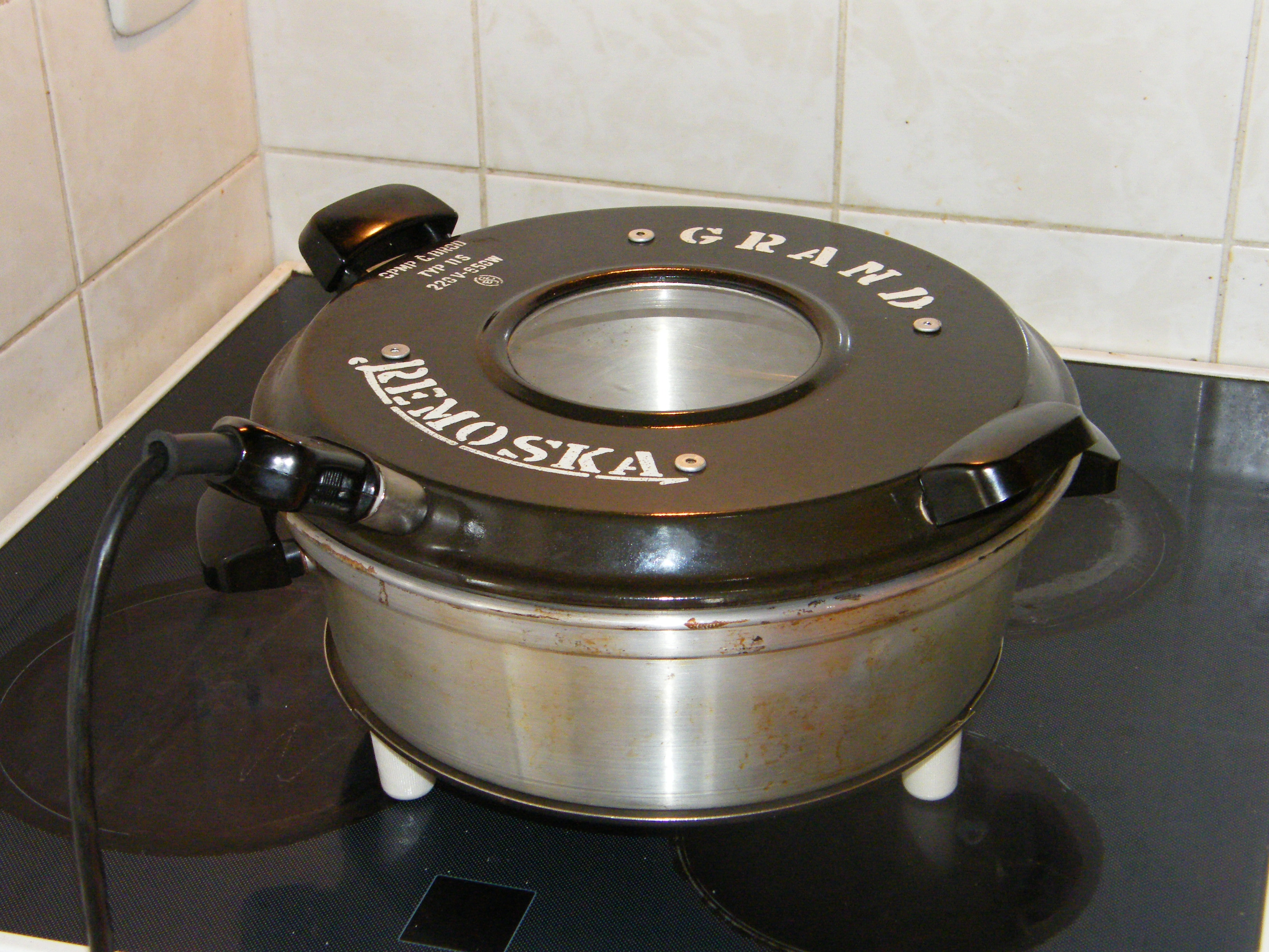 Old Remoska Grand grill type 11S, very fine condition. Year of manufacture unknown. Photographed at home with a Fuji FinePix S8000fd camera, automatic setting with flash, no post-processing. Text transcription: 'OPMP Č. BROD / TYP 11 S / 220V-650W / ESČ'